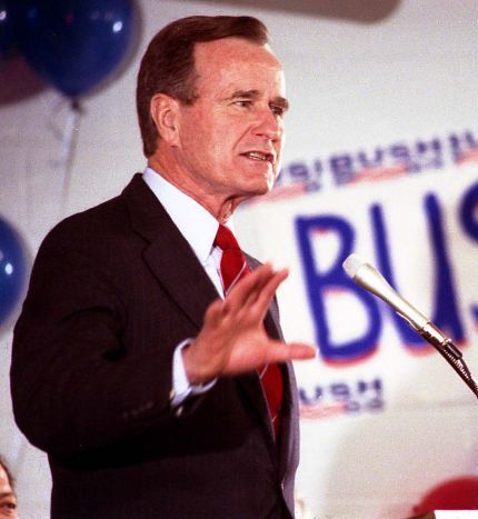 Vice President Bush campaigns for President in Augusta, South Carolina.